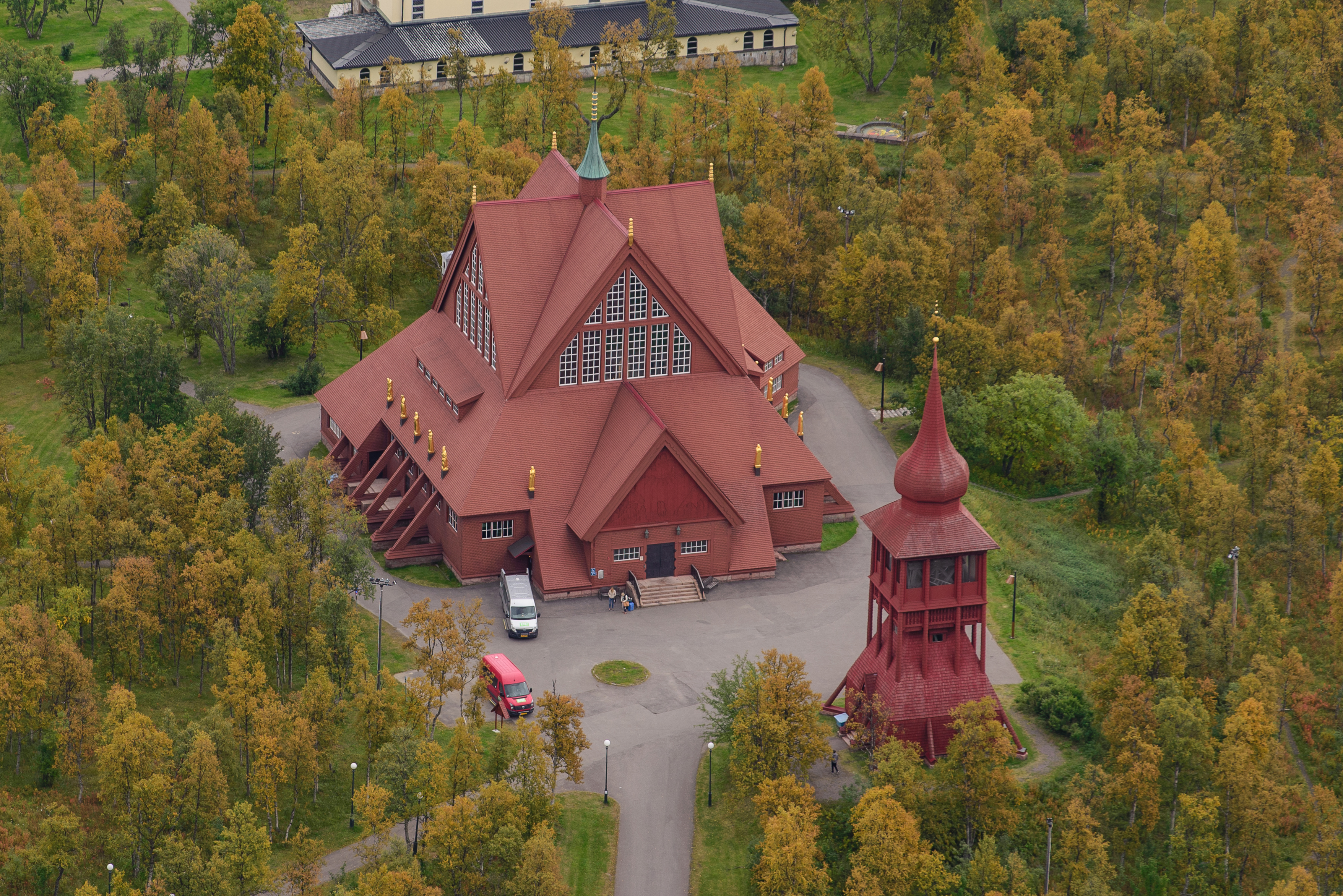 Kiruna church, Kiruna (Sweden).